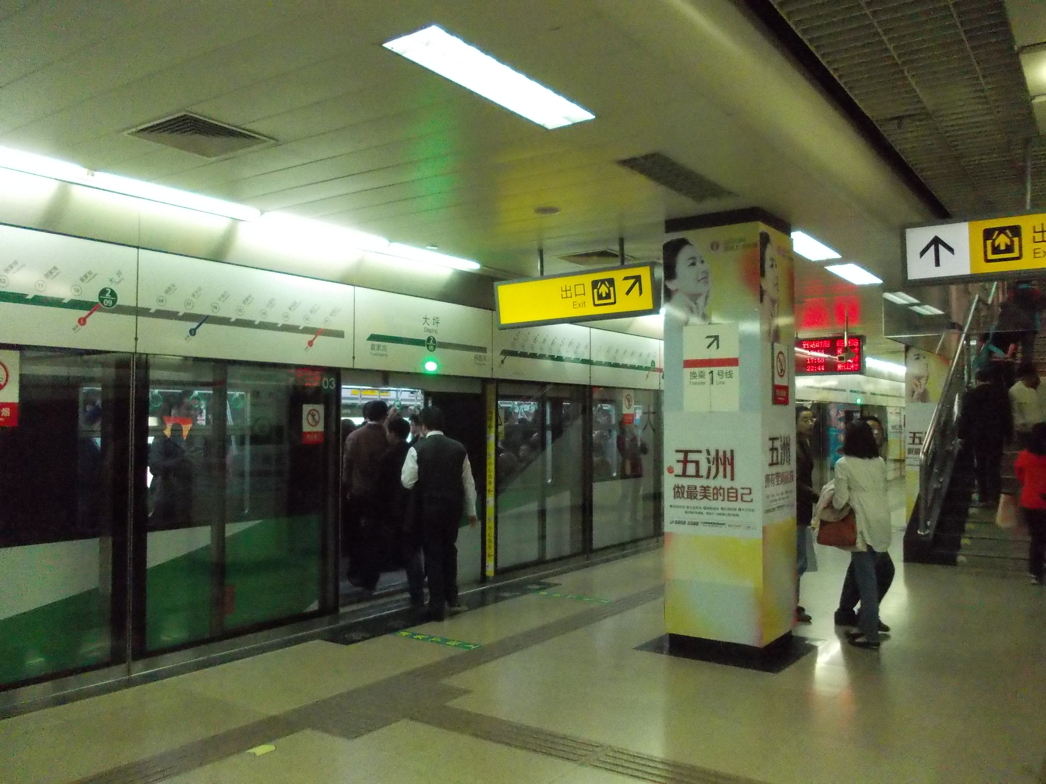 Chongqing Rail Transit - Daping - Line 2 platform